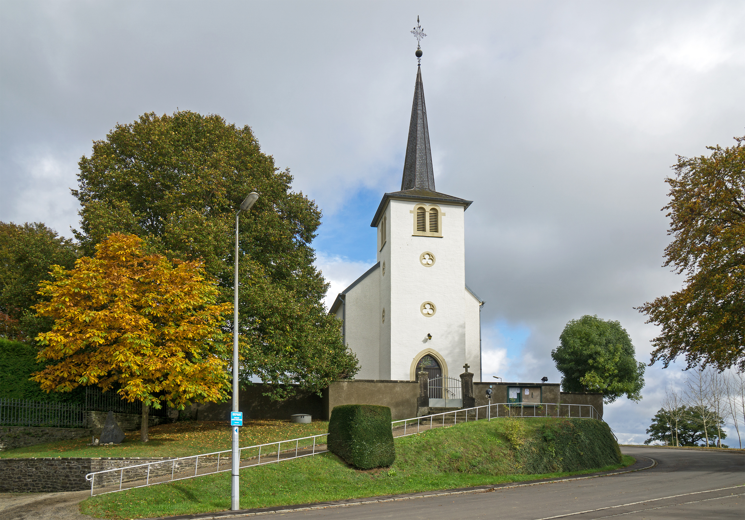 Church of Derenbach